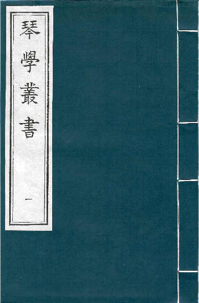 Scan of front cover of first folio of the facsimile of Qinxue Congshu [Collection of Books on Qin Study] originally published in 1911-31 in China. This facsimile produced in 1996 by Zhonghua Shudian. All Chinese facsimile books bound in traditional format are virtually the same save the title text which is mostly generic.